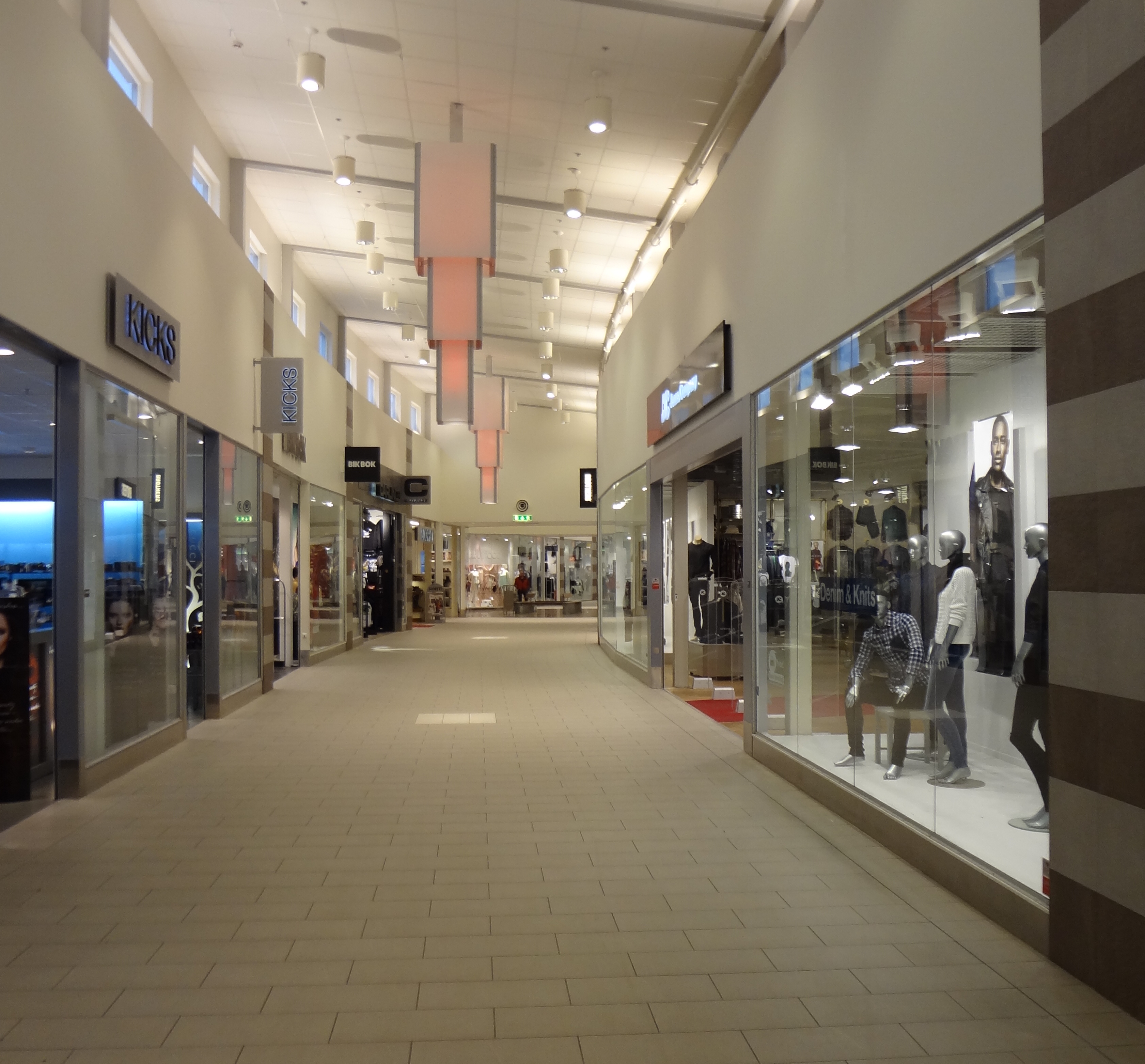 Shopping mall Tuna Park in Eskilstuna, Sweden. Photo november 2012.